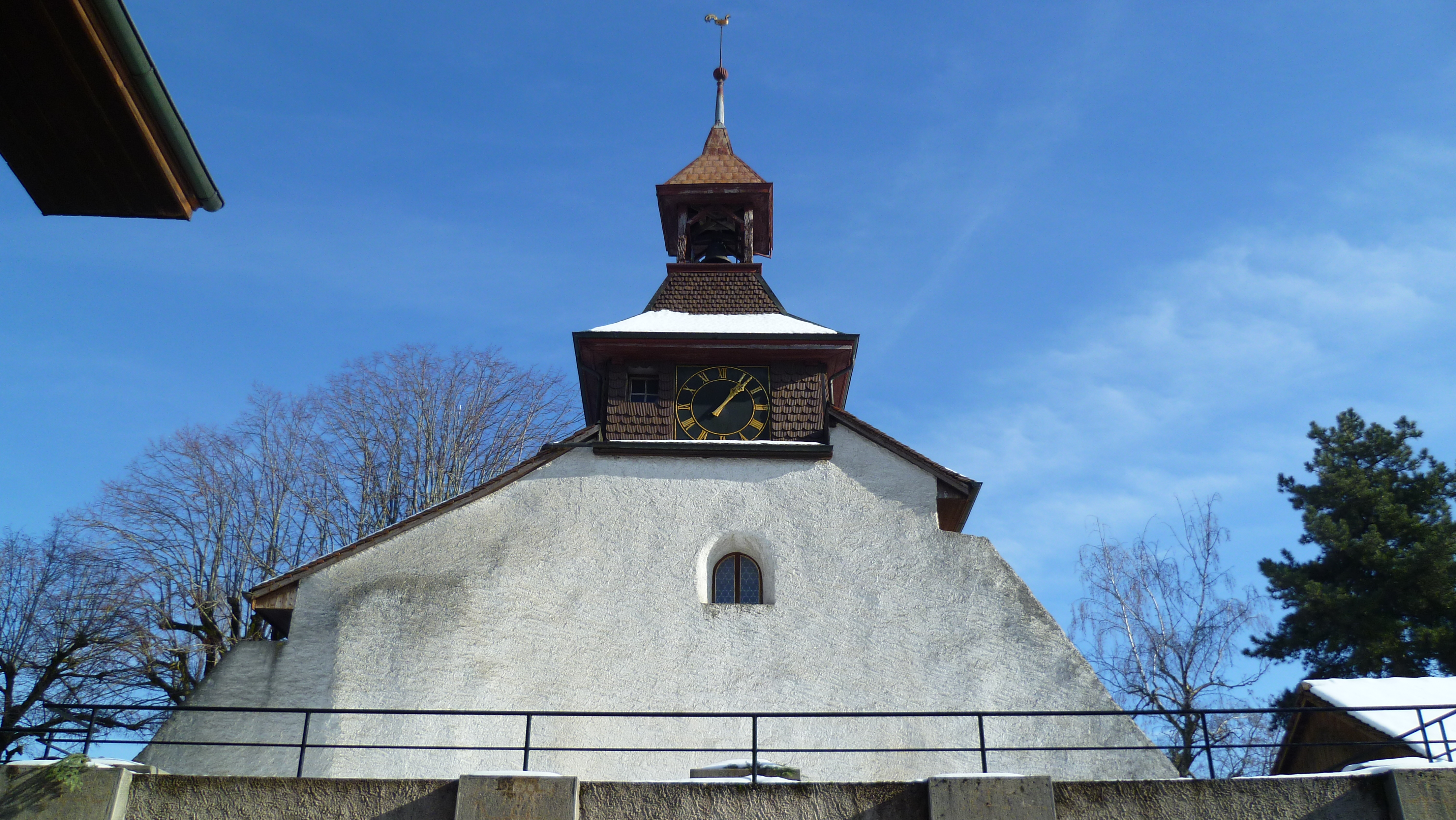 Front side of the swiss reformed Church of Sainte-Etienne